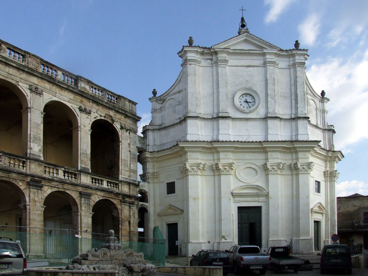 Cantalupo in Sabina, Church Maria Santissima Assunta in Cielo, Province of Rieti, Italy